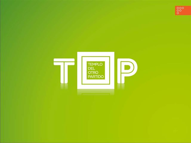 Logo fo Argentinian sports museum in Buenos Aires